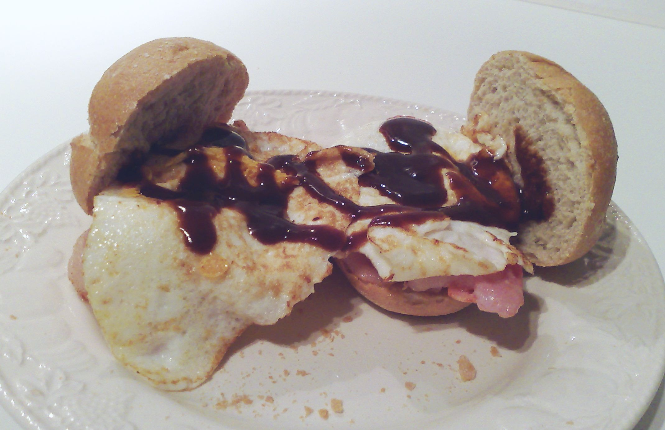 With brown sauce. HP, obviously.